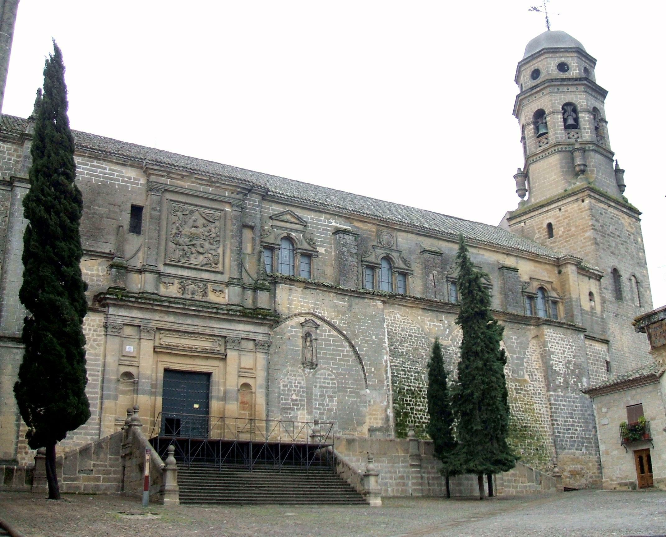 Catedral de la Natividad de Nuestra Señora, Baeza (Jaén, Andalucía, España)